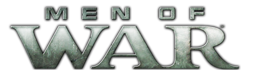 This logo shows the official logo of the video game series 'Men of War'.